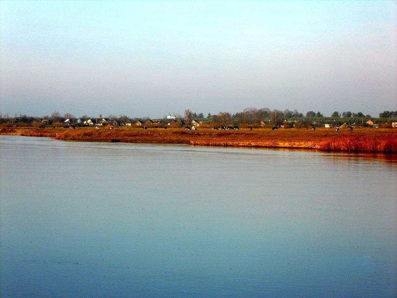 Luke near the village of Smorodsk